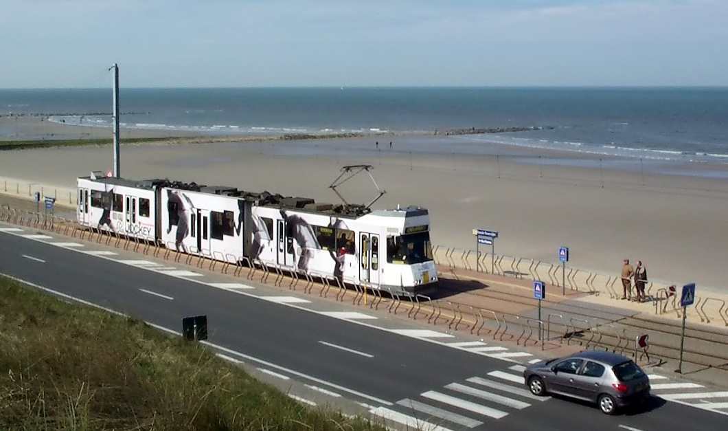 Coastal Tram (Kusttram) in Belgium at tram-stop "Domein Raversijde" (south of Ostend)